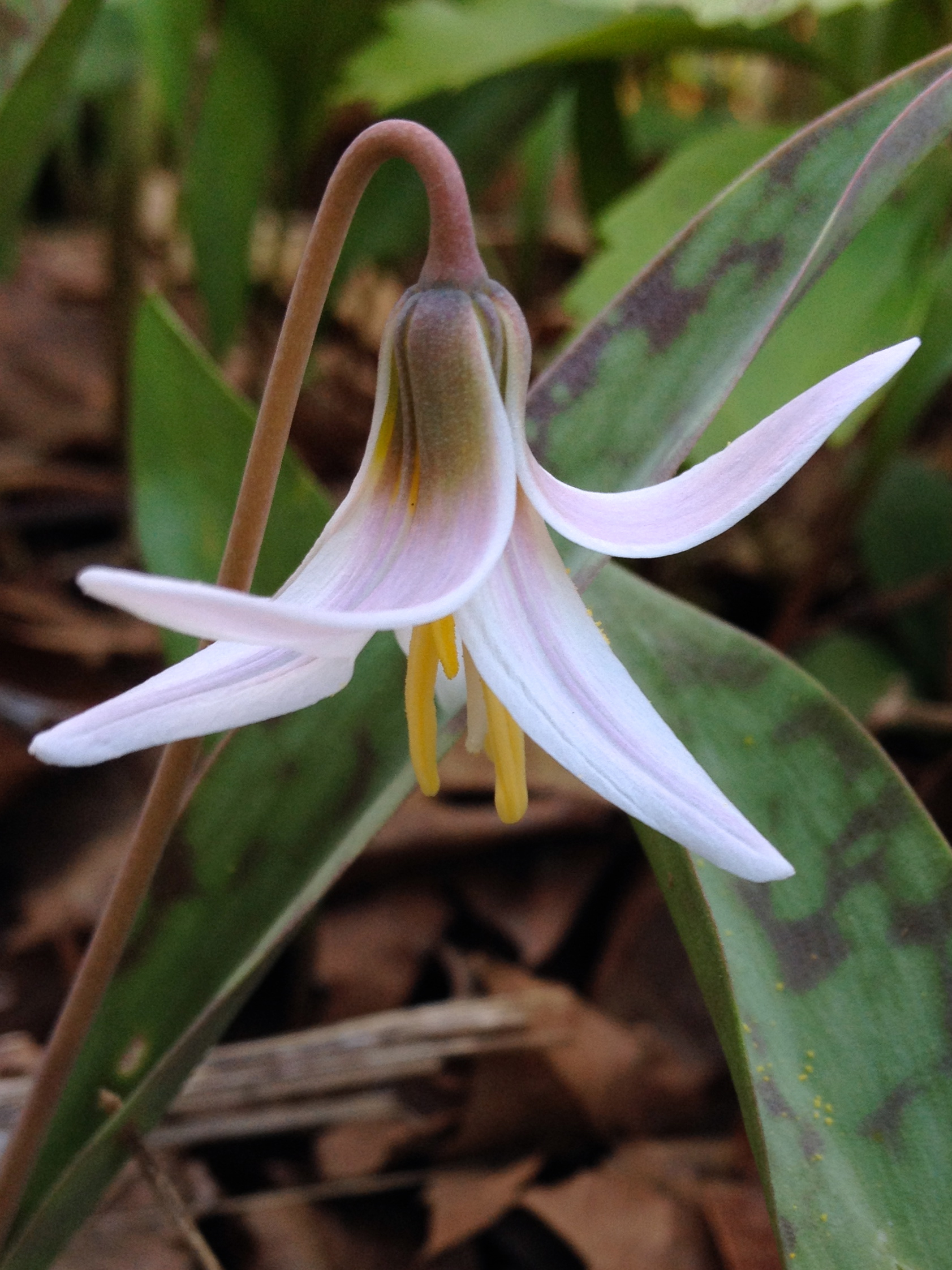 Erythronium albidum, C & O Canal Lock 6, 4/10/13